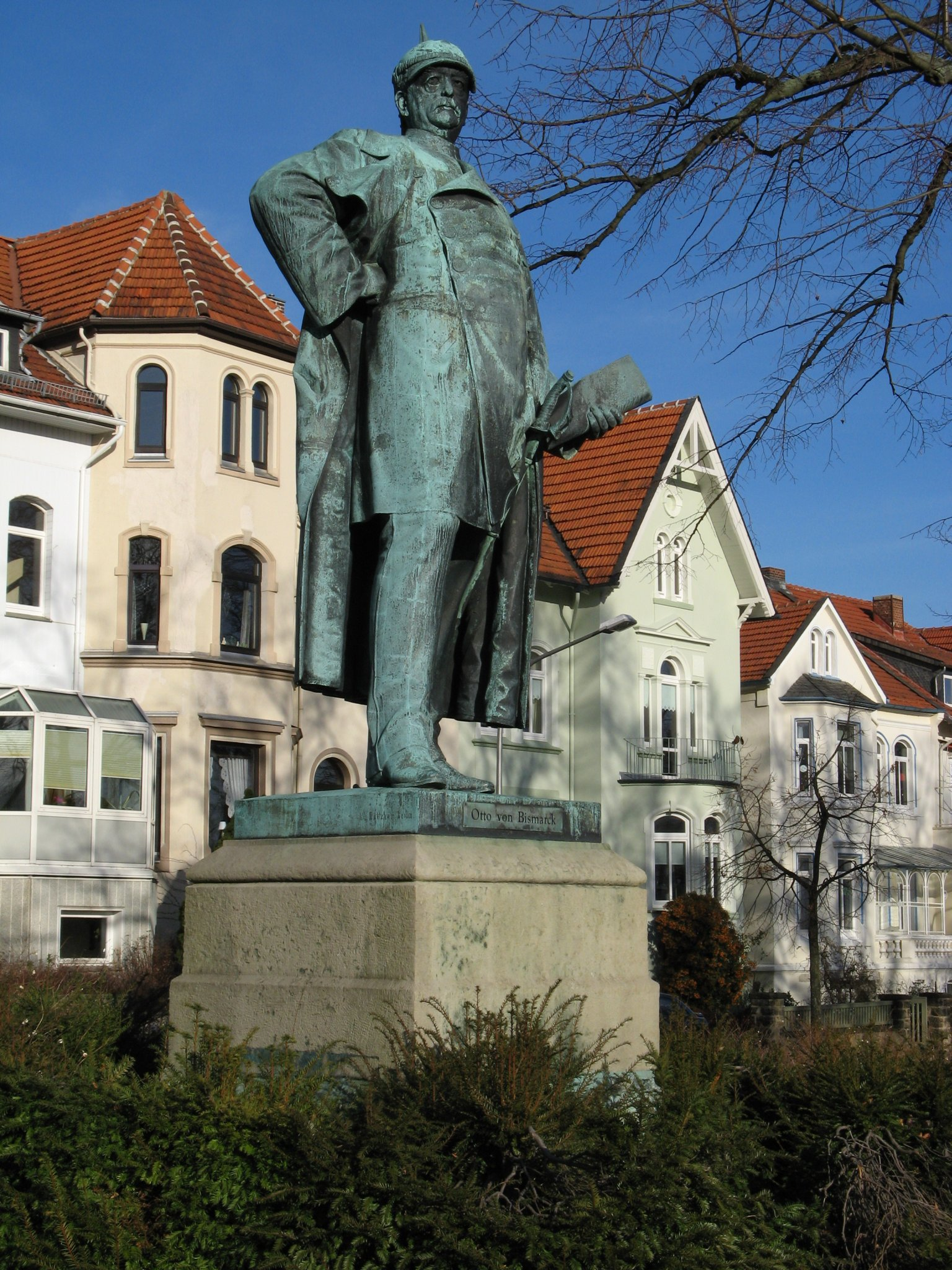 Bismarck monument on the Georgenberg in Goslar, Germany.